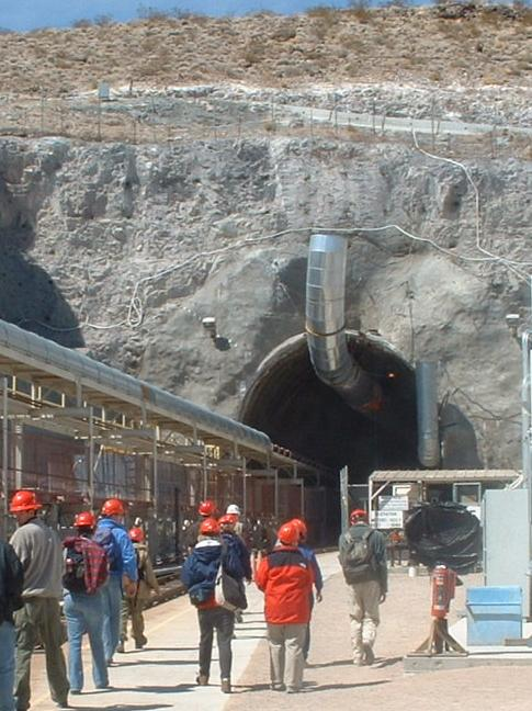 Picture of a tour group entering the North Portal of the Yucca Mountain nuclear waste repository. This is also the place where excavation by a tunnel boring machine (TBM) began, that dug the main tunnel.